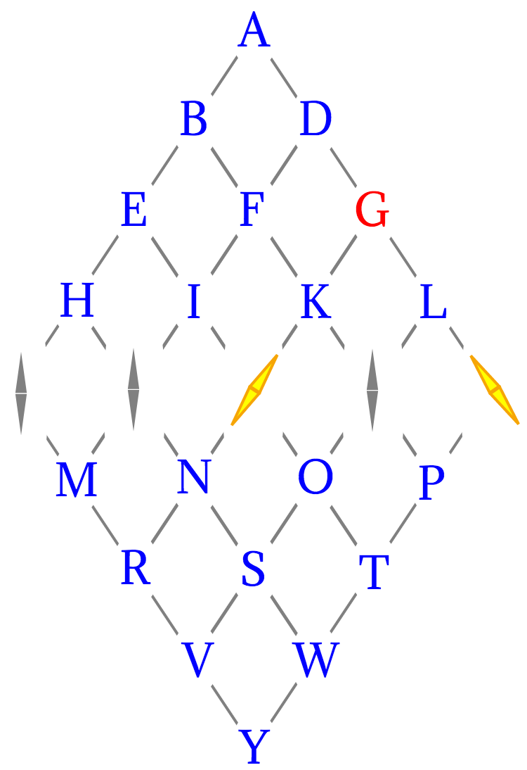 Diagram of alphabet used in a 5 needle Cooke and Wheatstone Telegraph, indicating the letter G. This diagram is a simplification of an image which appears in Shaffner's 1867 book "The Telegraph manual" (page 204).